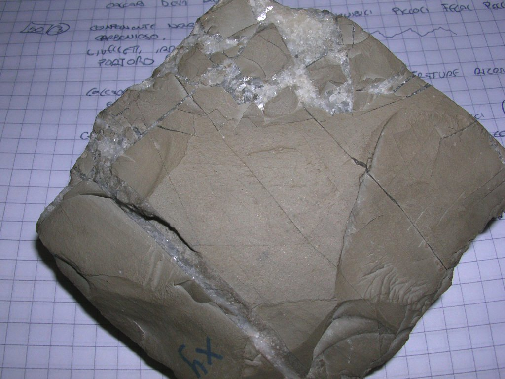 Argillaceous Alberese limestone. The colour is due to a small quantity of mud; conchoidal fractures are also evident.